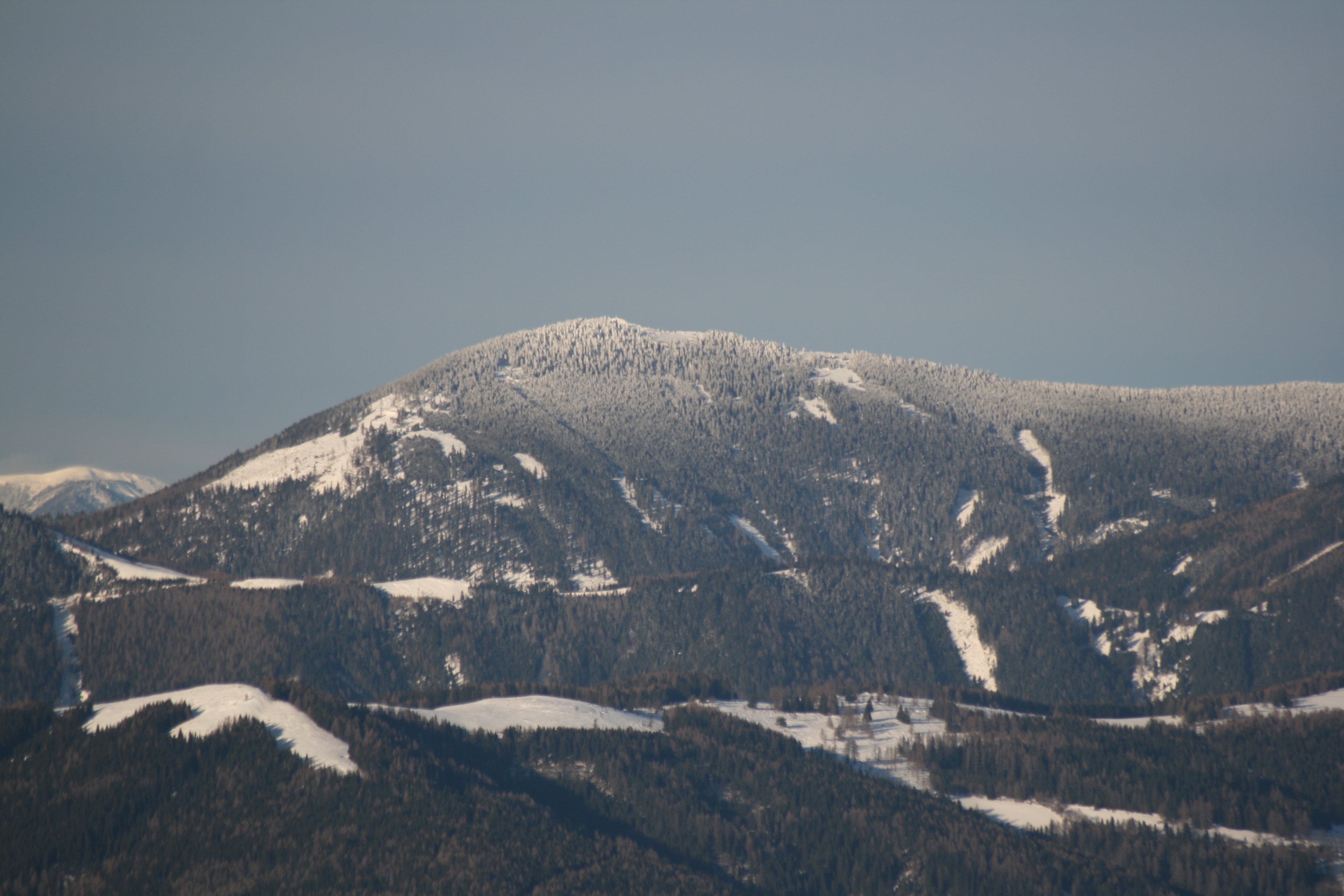 "Hochlantsch" mountain near Graz, Styria, Austria, Europe